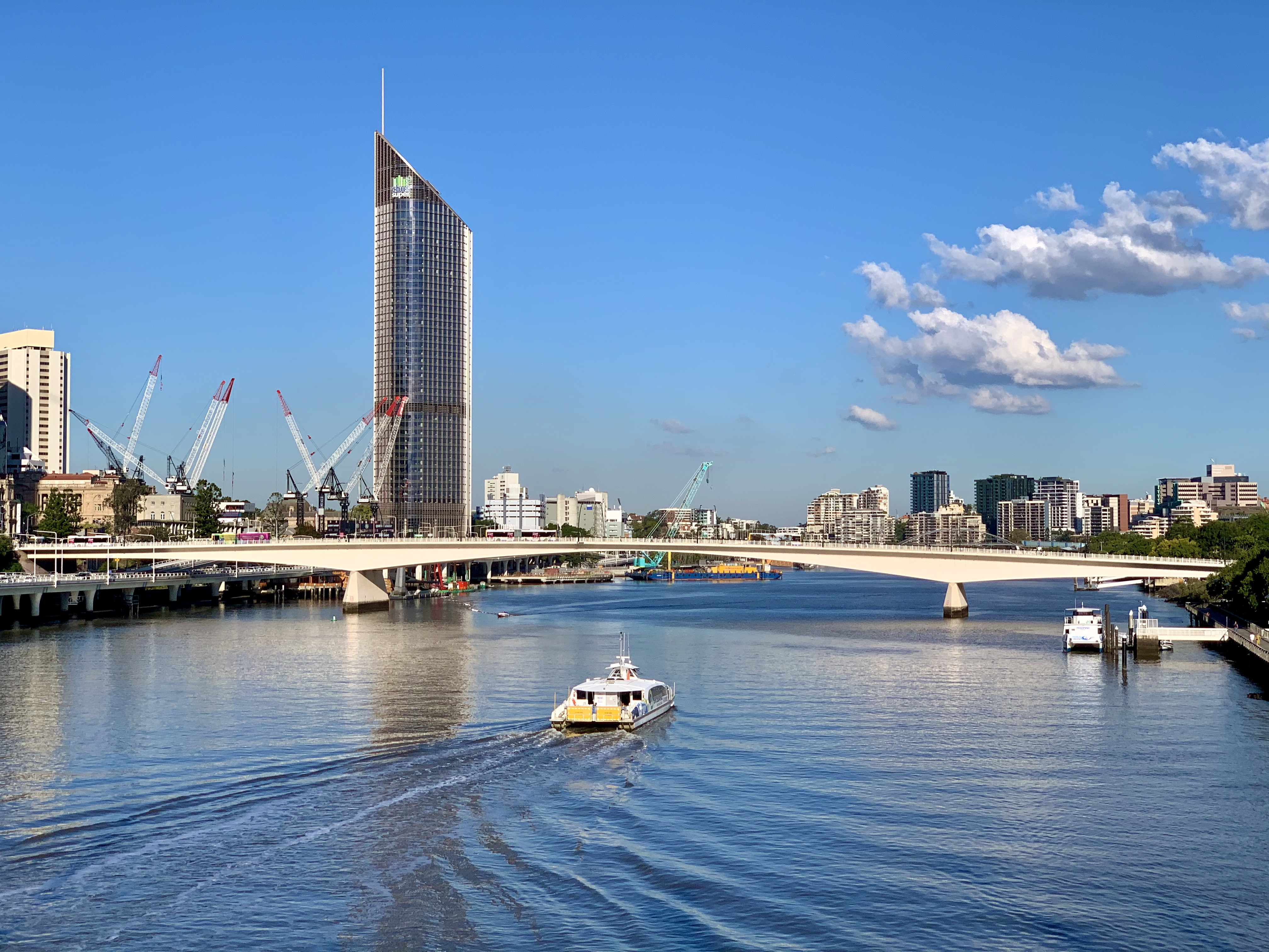 CityCat, Victoria Bridge, 1 William Street, Brisbane, July 2020